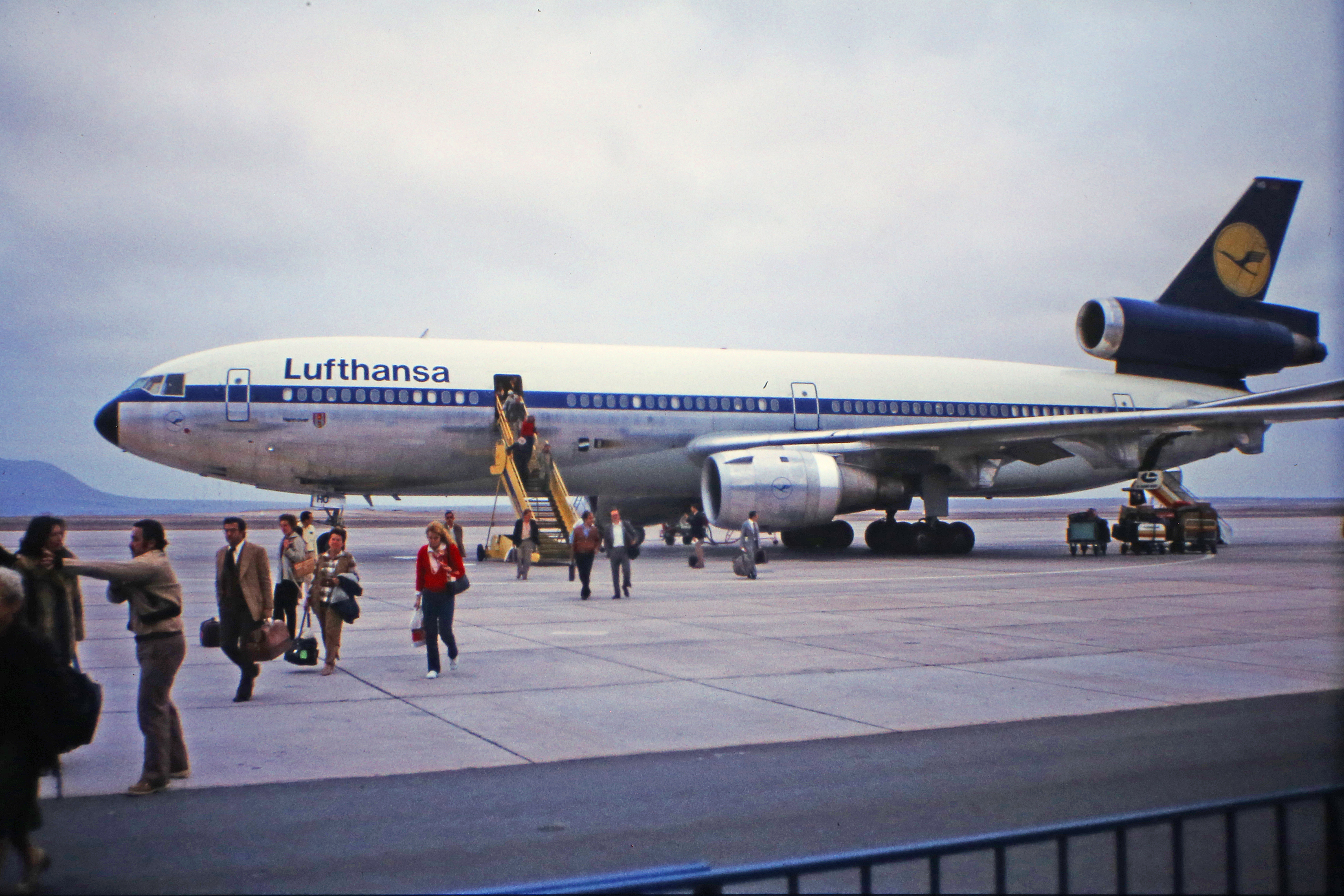 La Paz, Bolivia: El Alto International Airport is located at 4,061 meters above sea level.